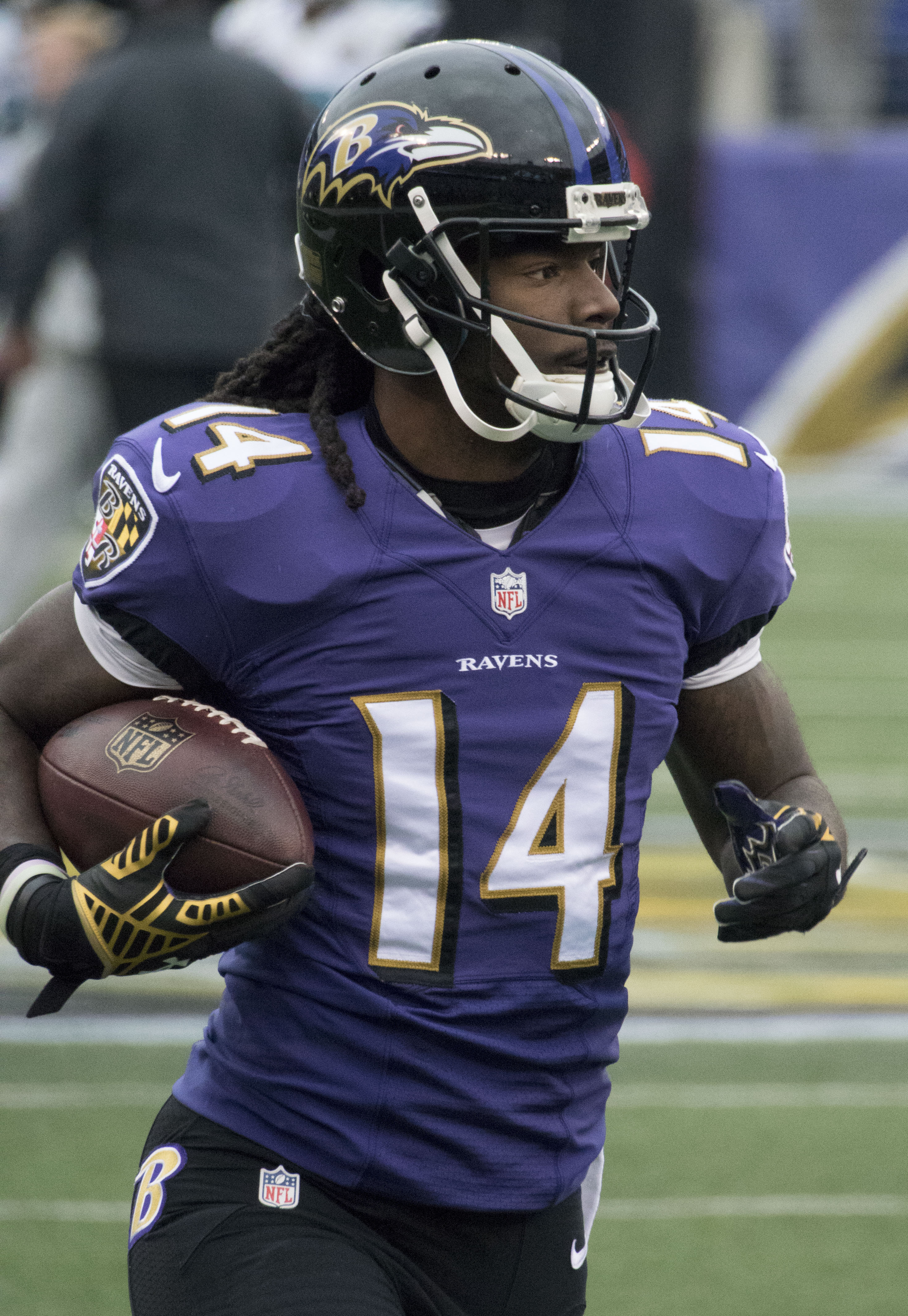 Jaguars at Ravens 12/14/14